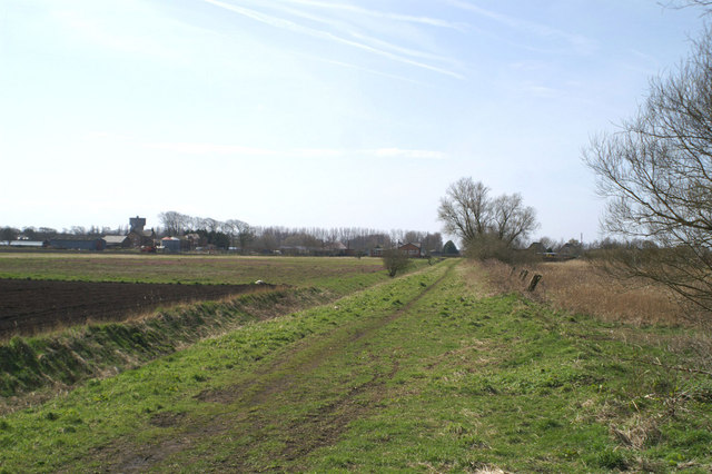 Old railway line now used as a public footpath, near to Banks, Lancashire, Great Britain.